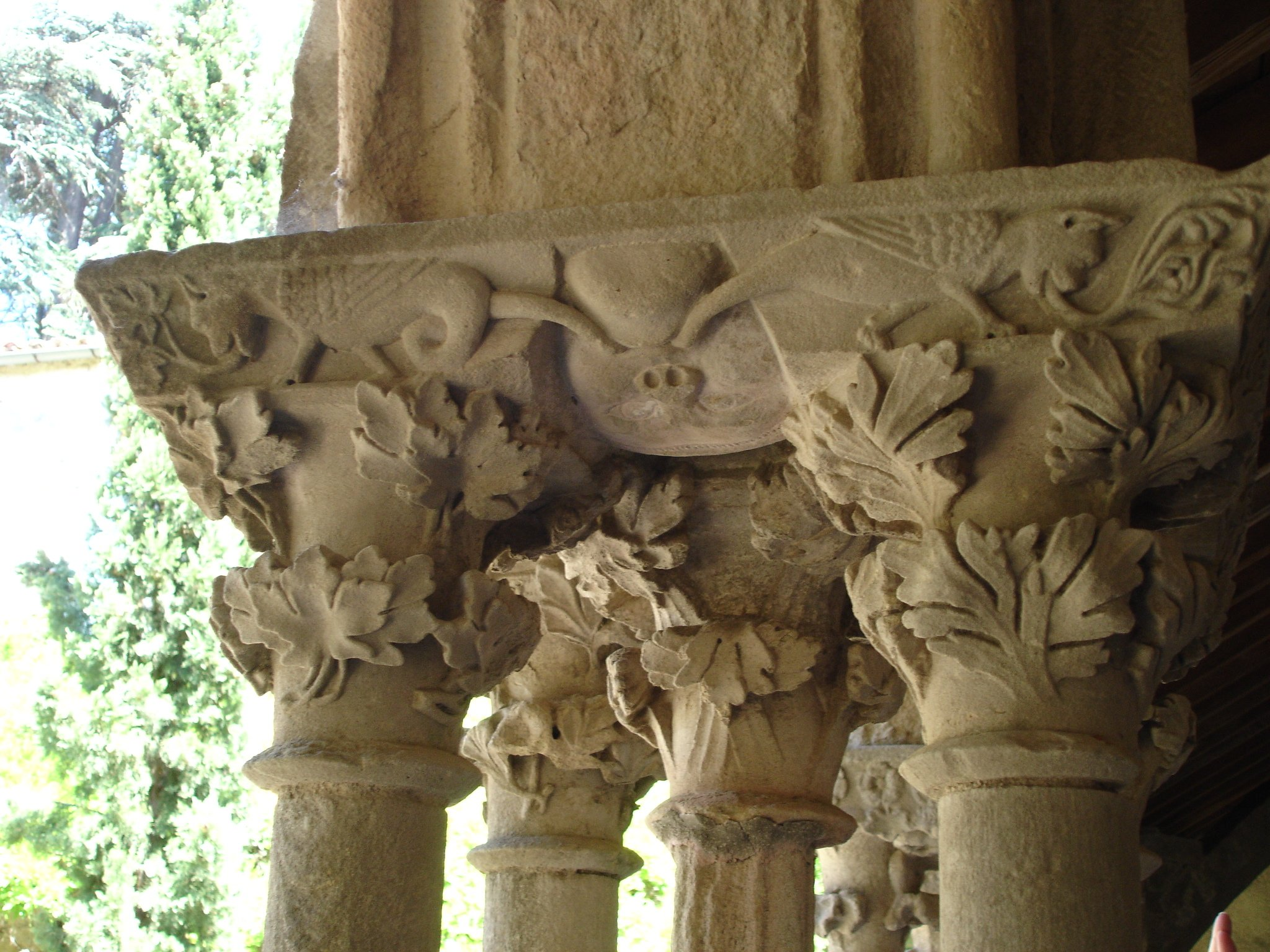 France, Aude (11), Villelongue Abbey